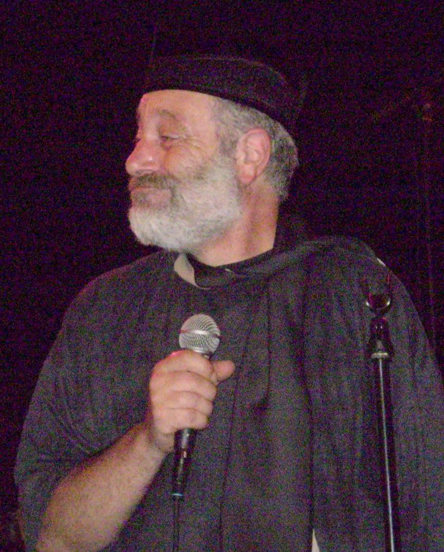 Doe Maar percussionist and guest musician Joost Belinfante at Delft concert, June 2008